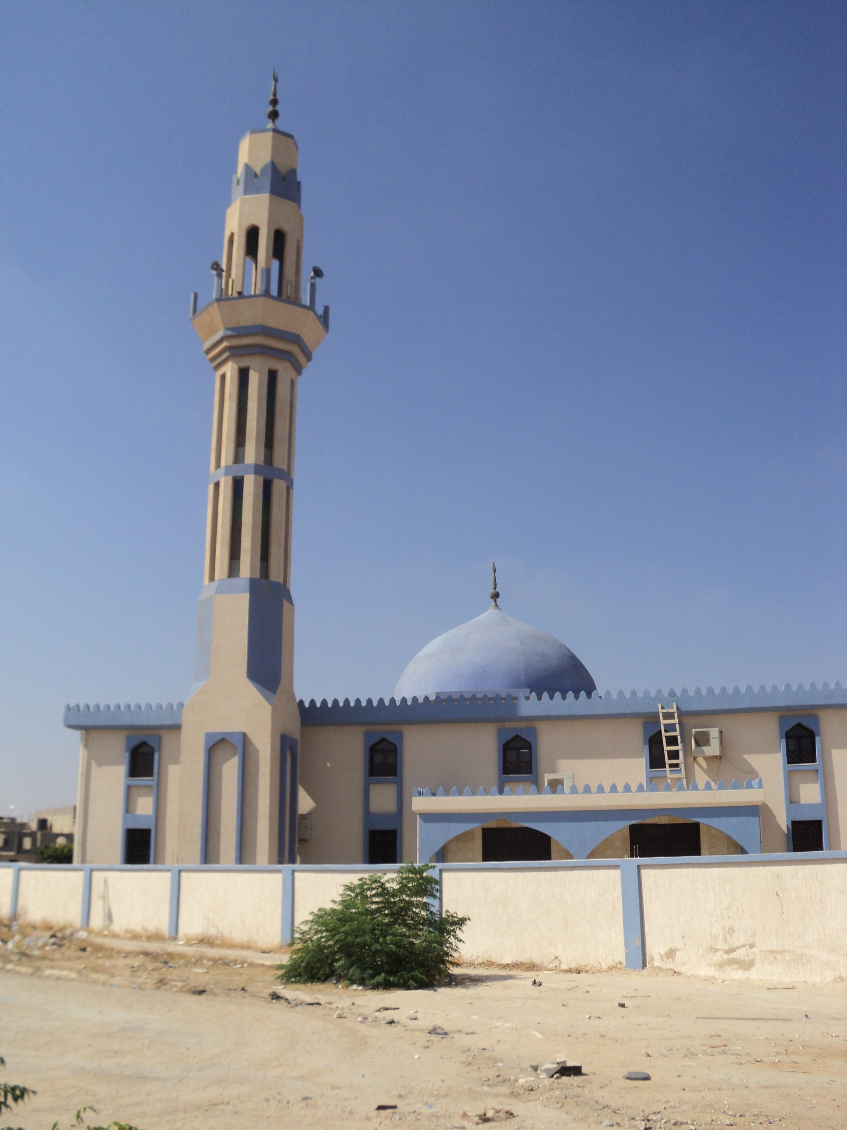 Suhayl ibn Amru mosque in Majuri neighbourhood, Benghazi.